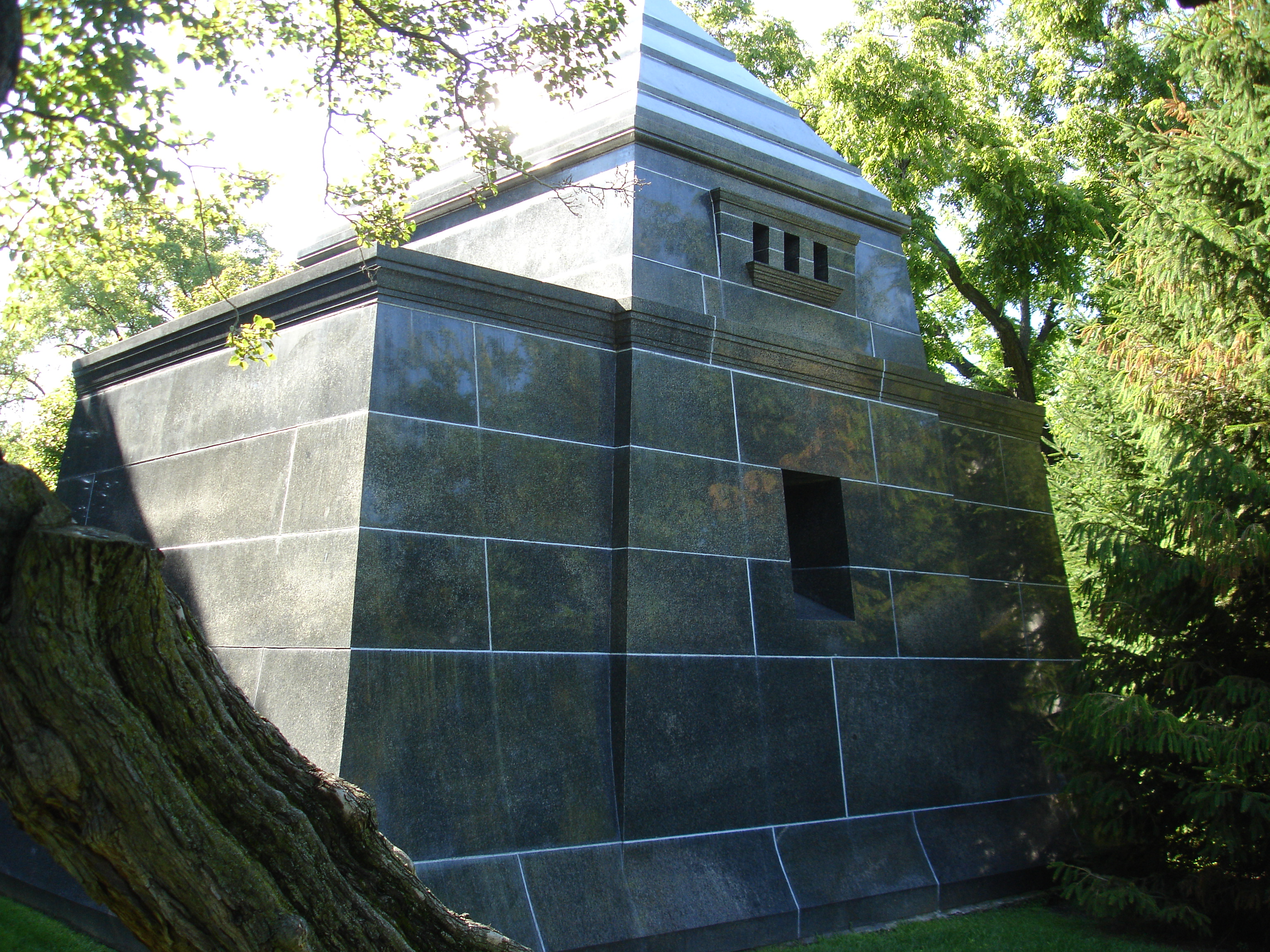 The Louis Sullivan designed mausoleum of Martin A. Ryerson. This Egyptian Revival Style structure is located in Chicago's Graceland Cemetery.